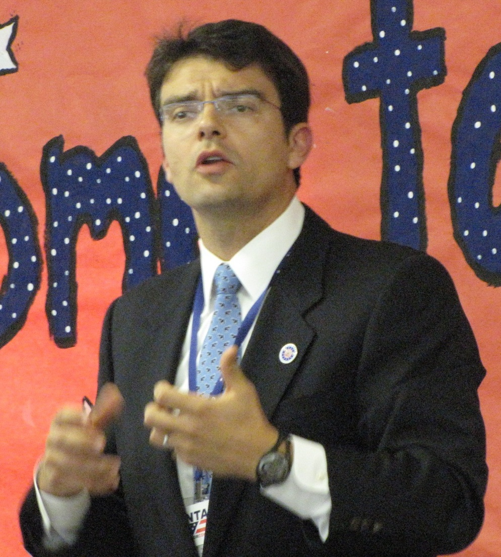 North Carolina congressional candidate Ilario Pantano